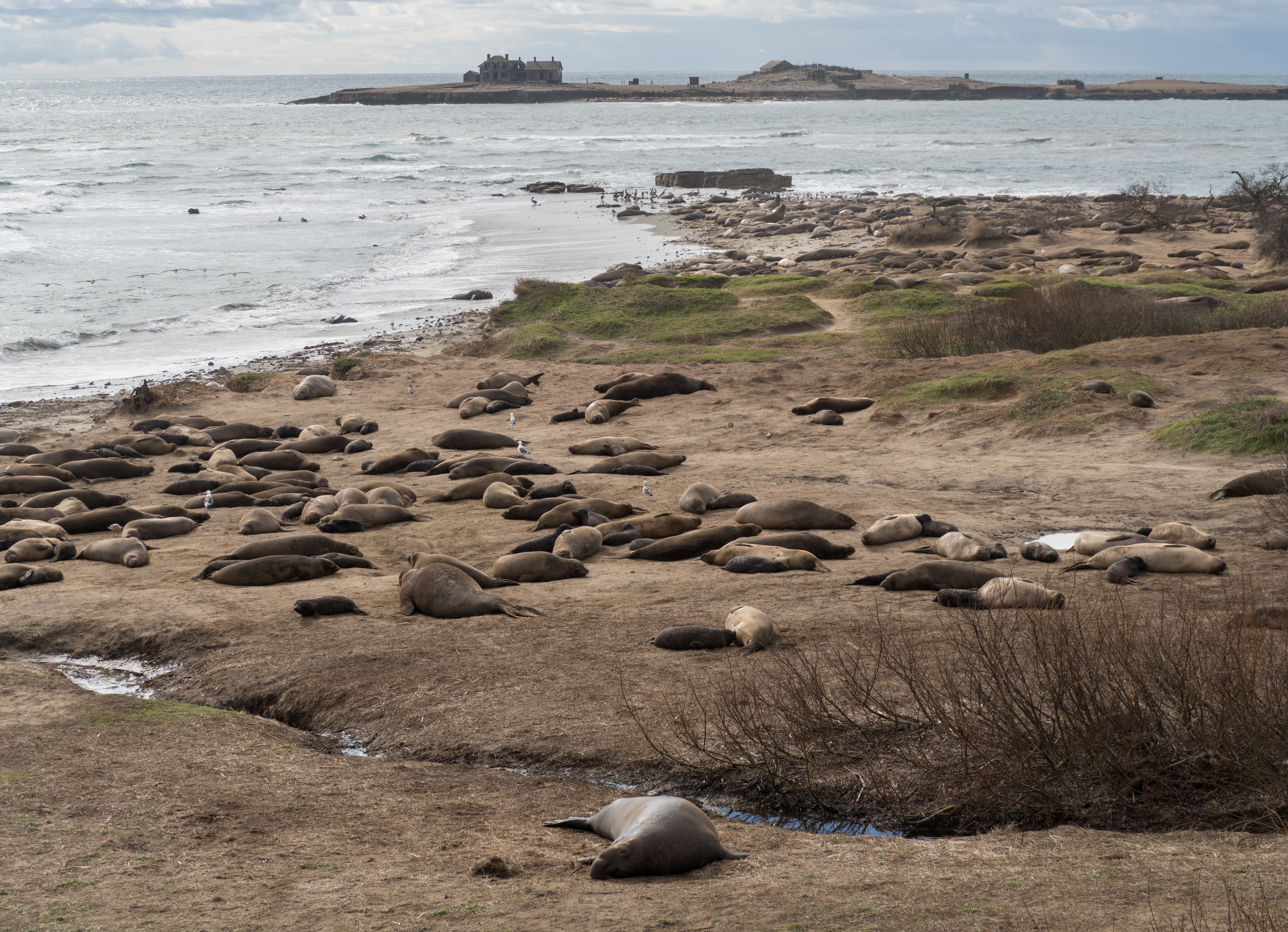 Northern elephant seals (Mirounga angustirostris) at Ano Nuevo State Park